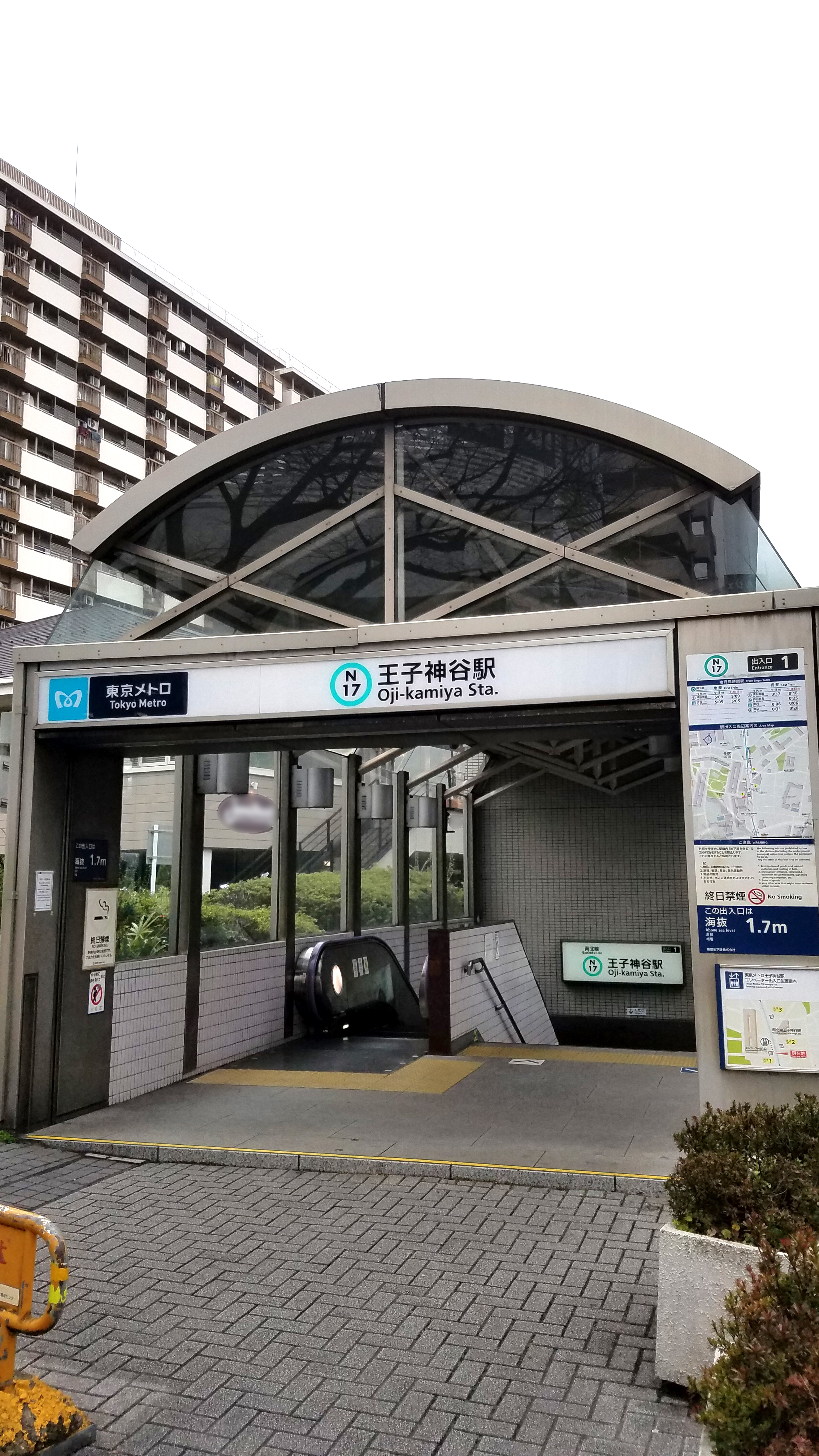 The no.1 entrance to Ōji-kamiya Station on the Tokyo Metro Namboku Line in Kita city, Tokyo, Japan